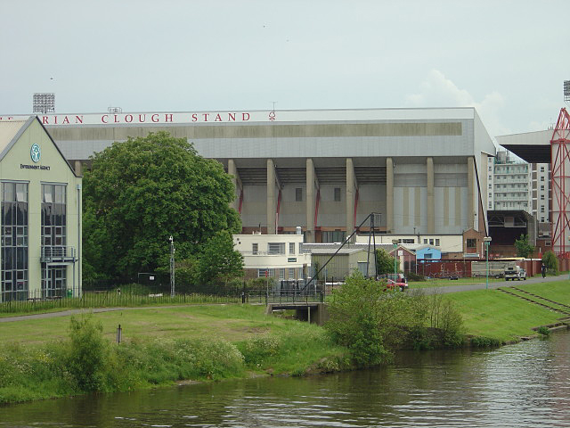 The Brian Clough Stand Viewed from Lady Bay Bridge. The inlet from the river in the middle of the picture is the entrance to the Grantham Canal. This is no longer navigable and has been built over to the left of the picture.